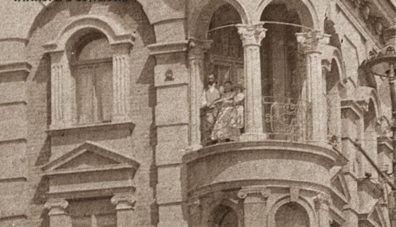 House of Georgi Georgov Detail